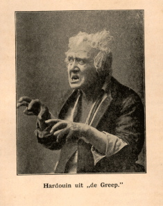 Theaterposter of the Dutch play "De Greep".